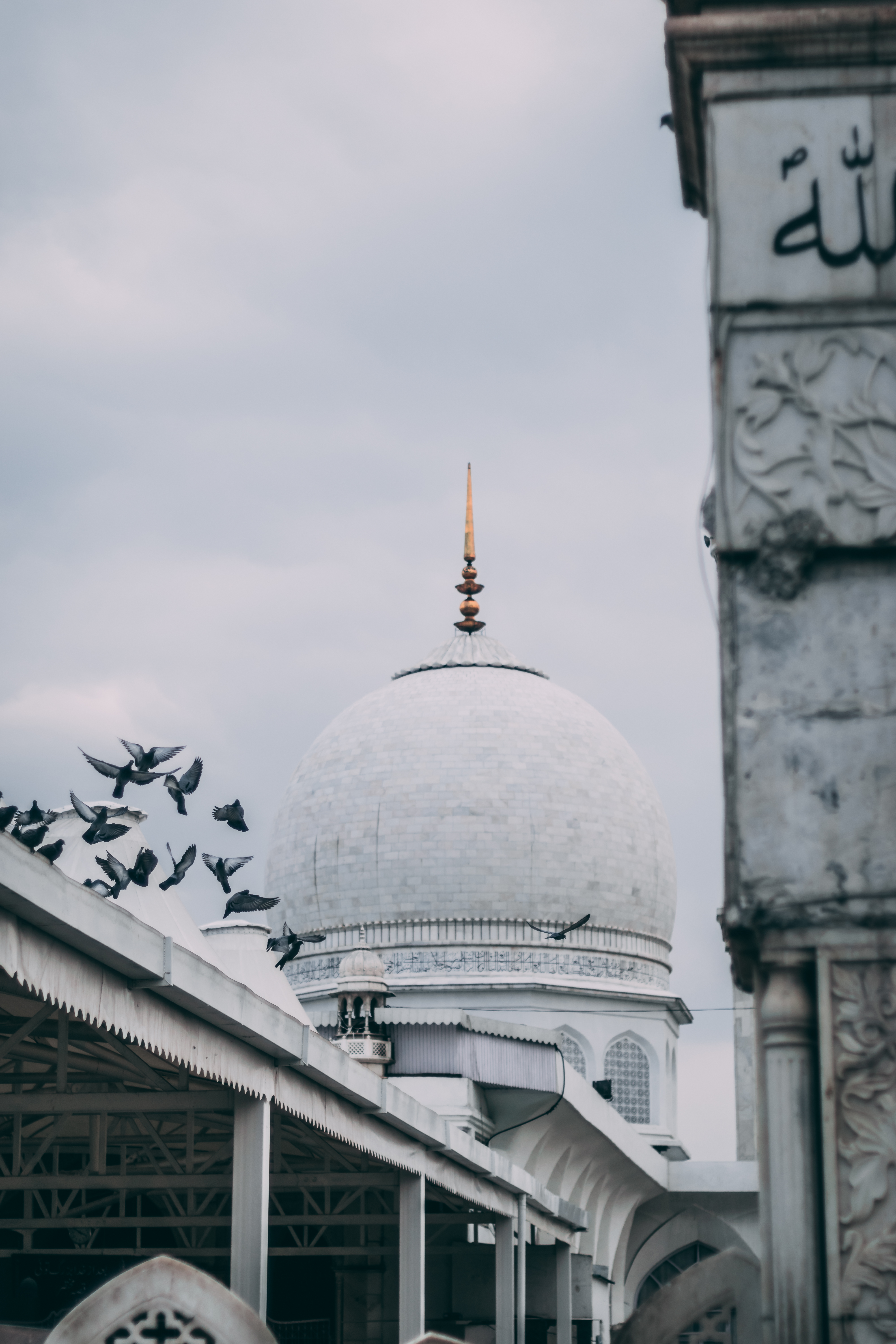 Hazratbal Shrine rests near the banks of Dal Lake Srinagar